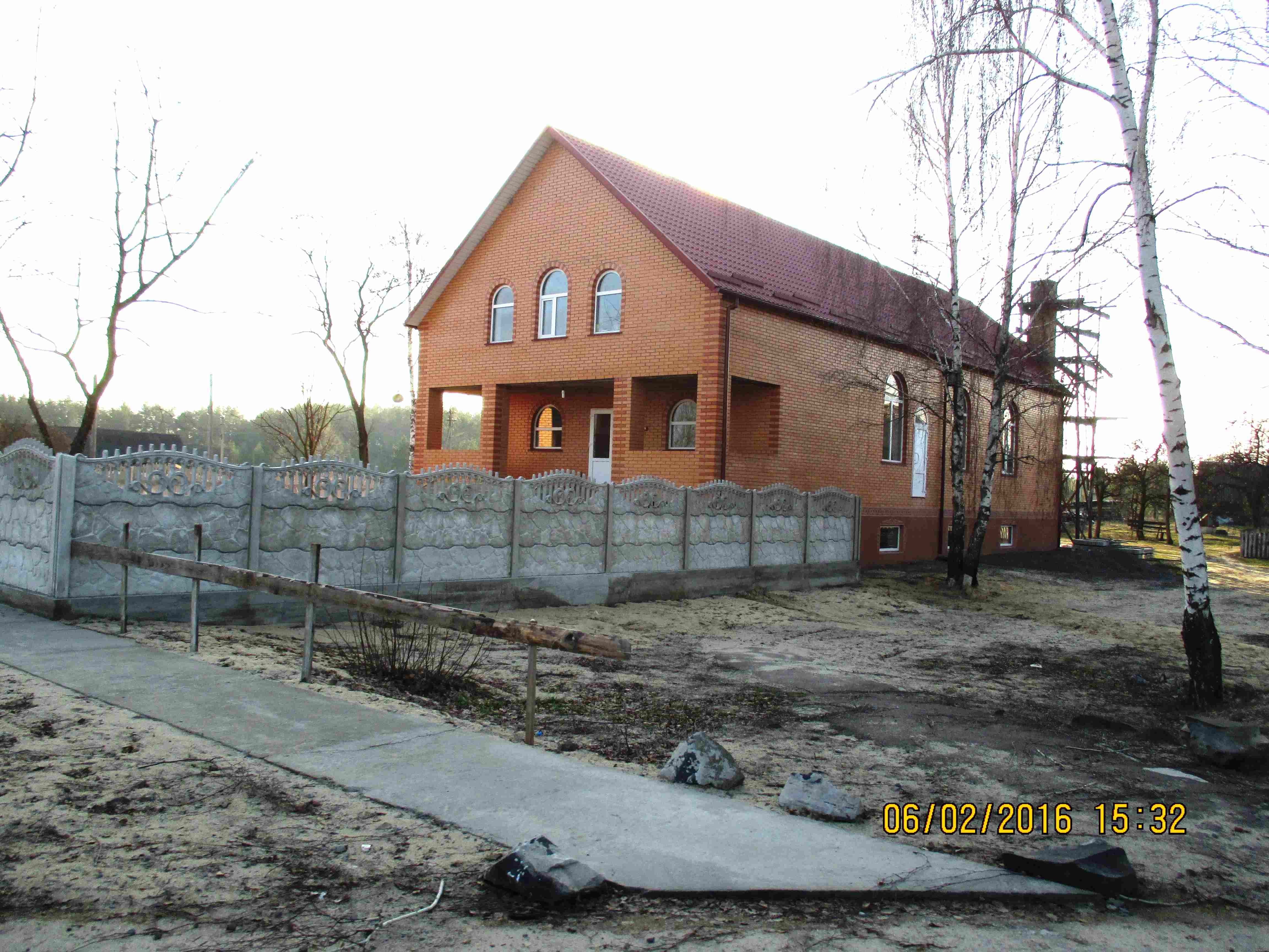 House of prayer